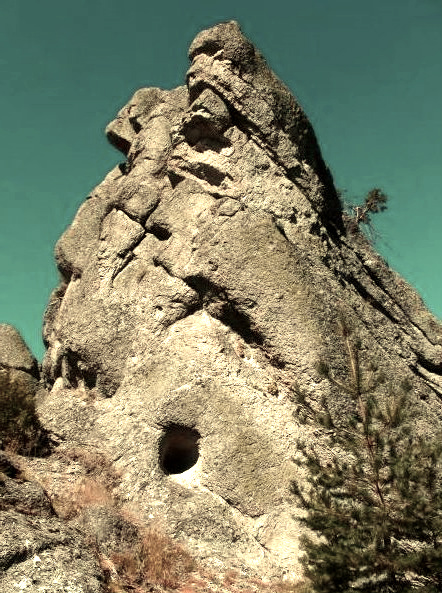 Kazkaya BG